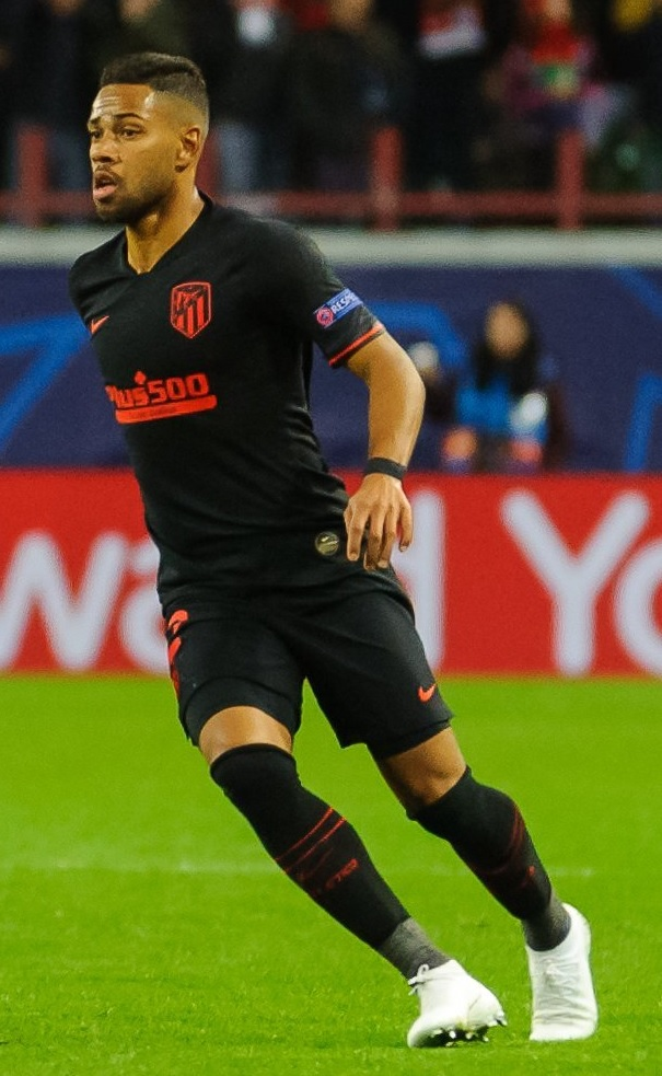 Renan Lodi with Atlético Madrid in a Champions League game against FC Lokomotiv Moscow.